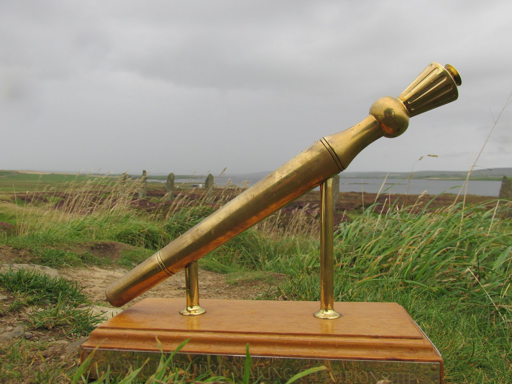 The Golden Spurtle trophy in 2016